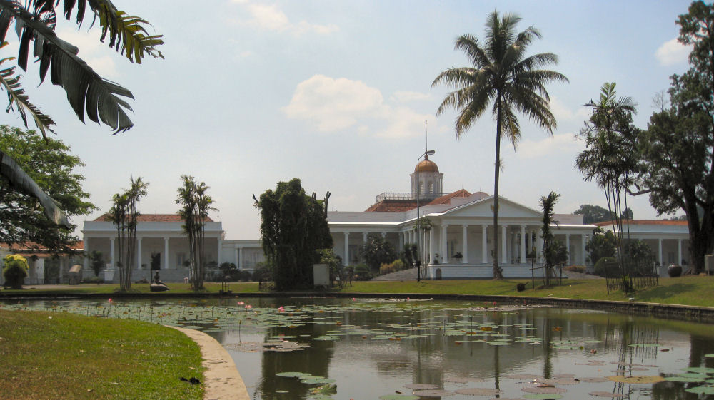 Istana Bogor, Indonesia